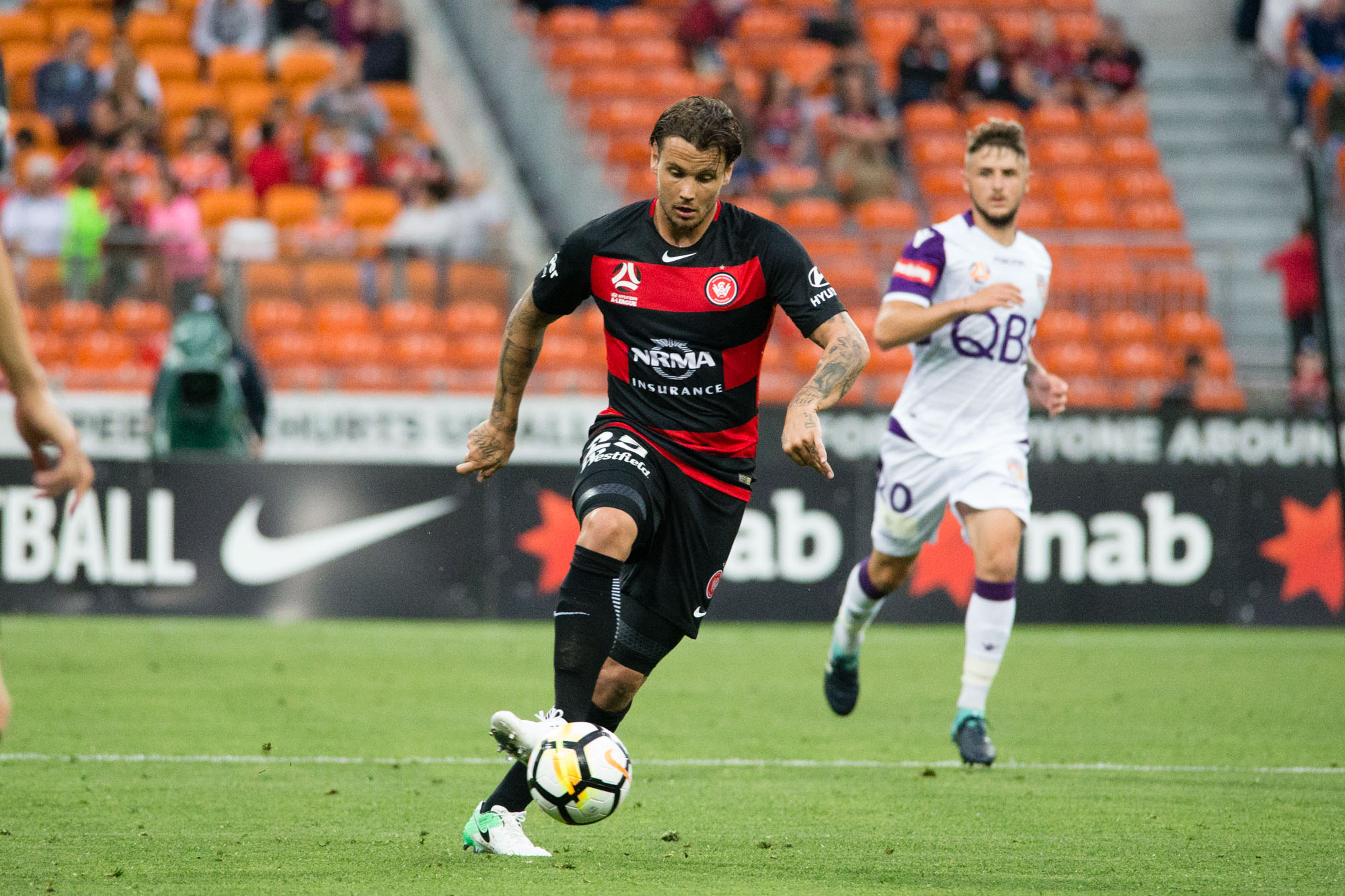 Chris Herd plays for Western Sydney Wanderers Oct 2017